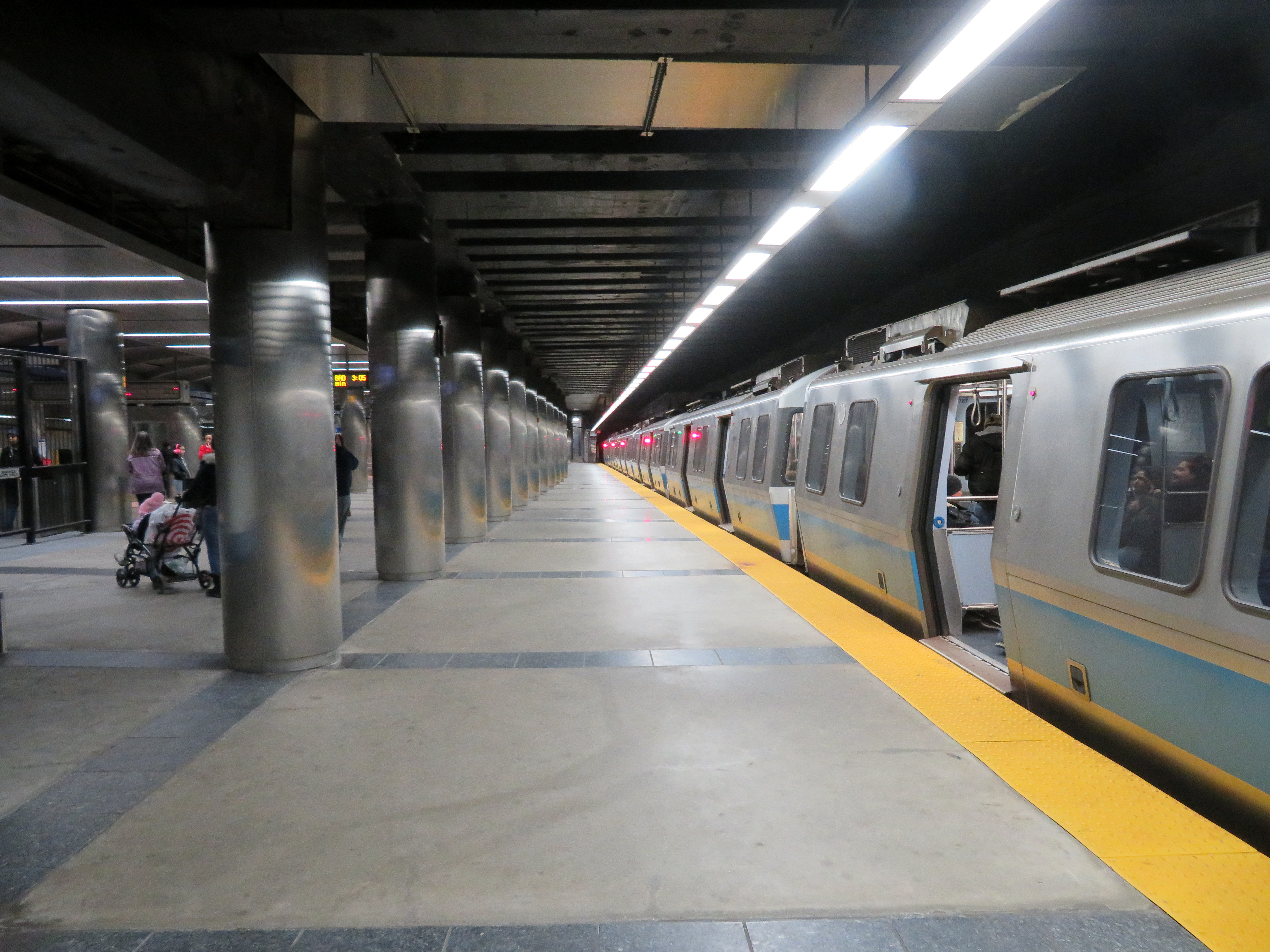 An inbound train at Maverick station in December 2018